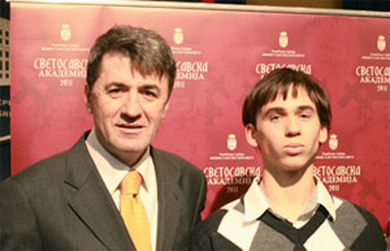 Serbian Minister of Education, Žarko Obradović, congratulating MGB students and professors for winning the absolute first place at the international competition "Romanian Master", organized for best 120 mathematicians (best 20 teams) from previous year's International Mathematics Olympiad (IMO). Students: Teodor fon Burg, Stevan Gajović, Igor Spasojević, Rade Špegar, Simon Stojković, Mario Cekić.